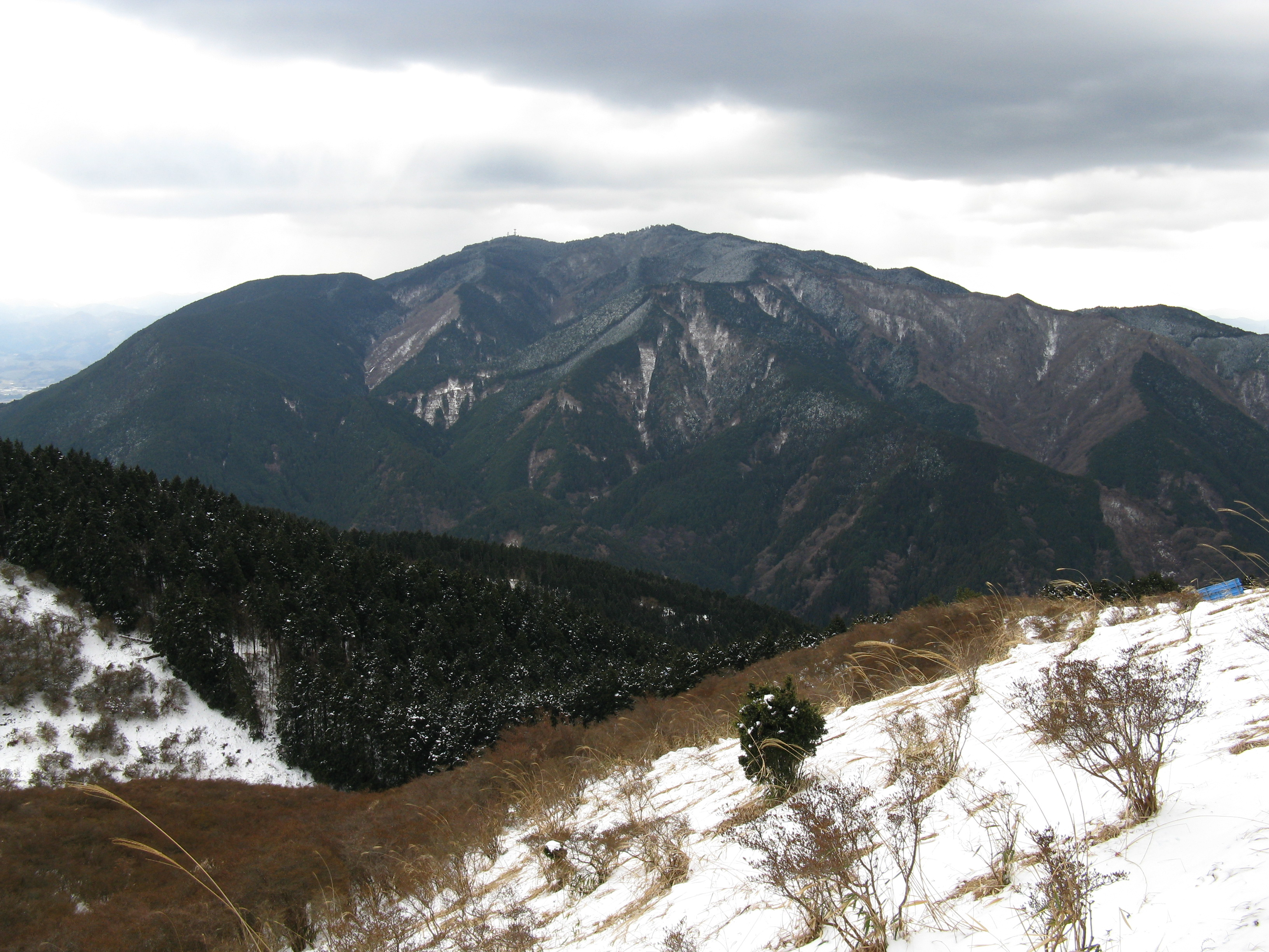 Mount Kongo seen from NNE. Taken from Mount Yamato-Katsuragi.